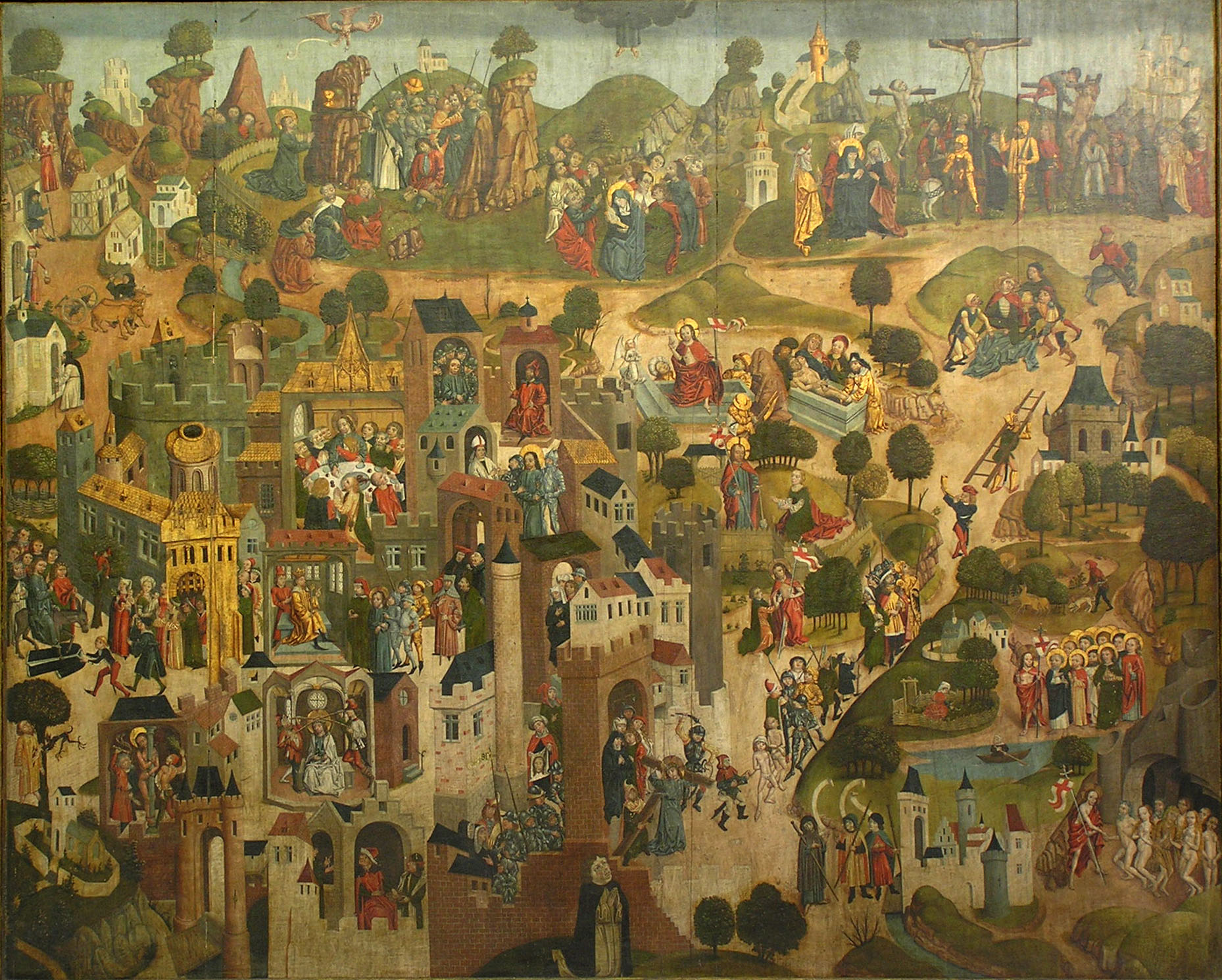 Toruń, church of St. James, Passion painting, ca. 1480-90